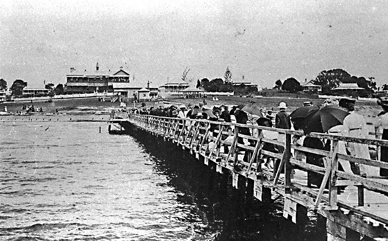 People walking along Southport Pier circa 1910, Gold Coast, Australia